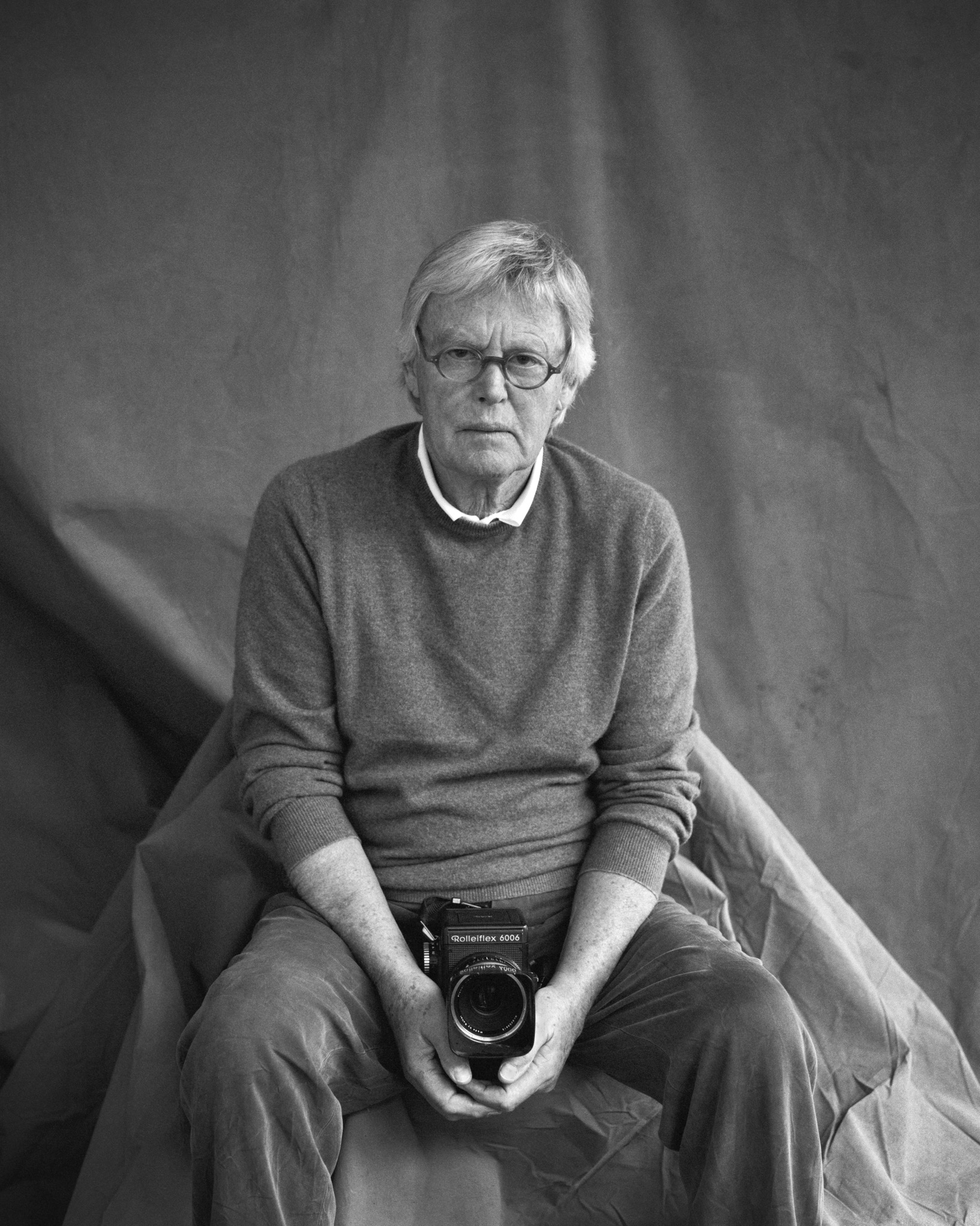 German Photographer Konrad R. Müller taking a break during a photo shoot for the newspaper „DIE ZEIT“. Helmut-Schmidt-Haus, Hamburg, January 8th 2016